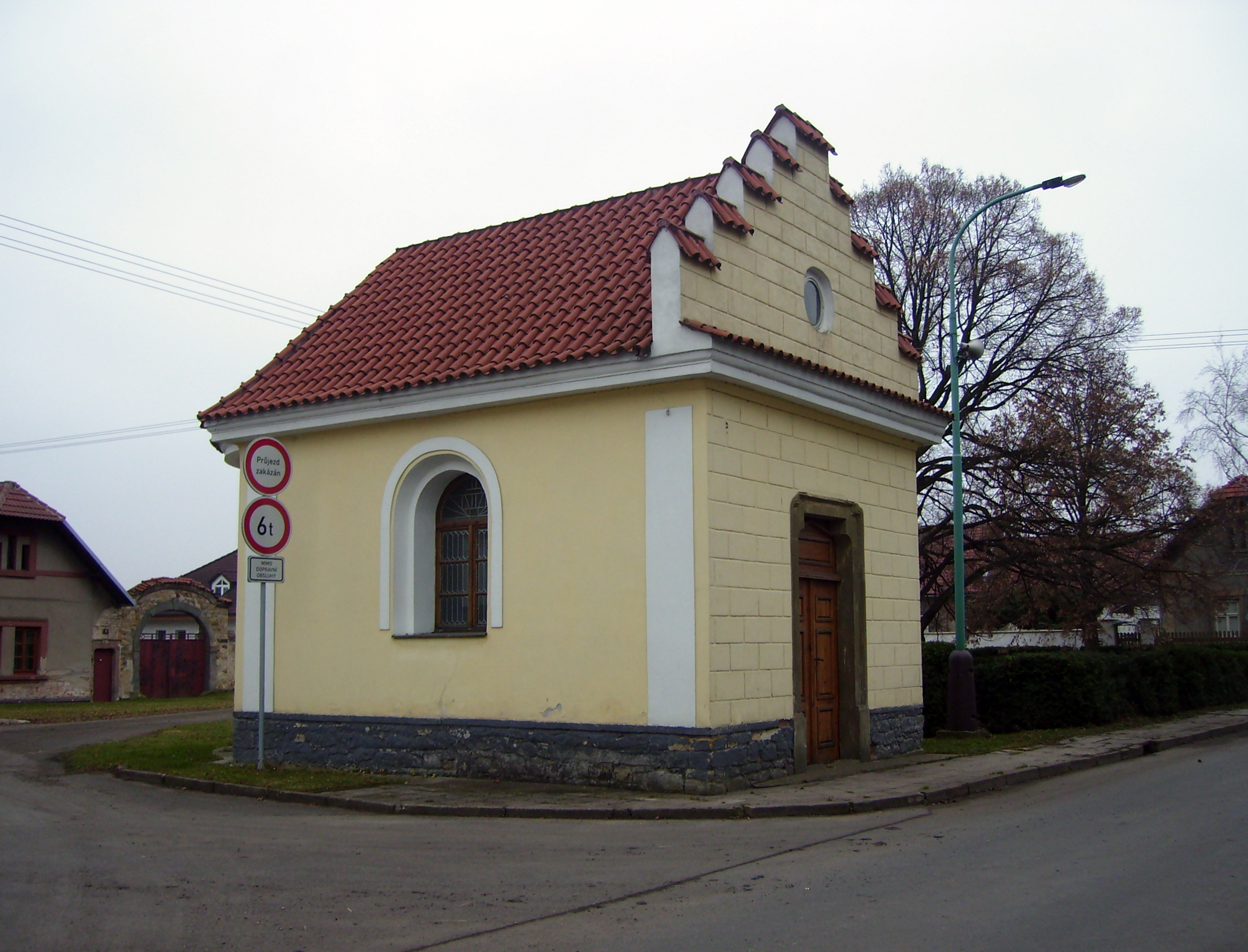 Chapel in Starý Vestec in Central Bohemia, Czech Republic